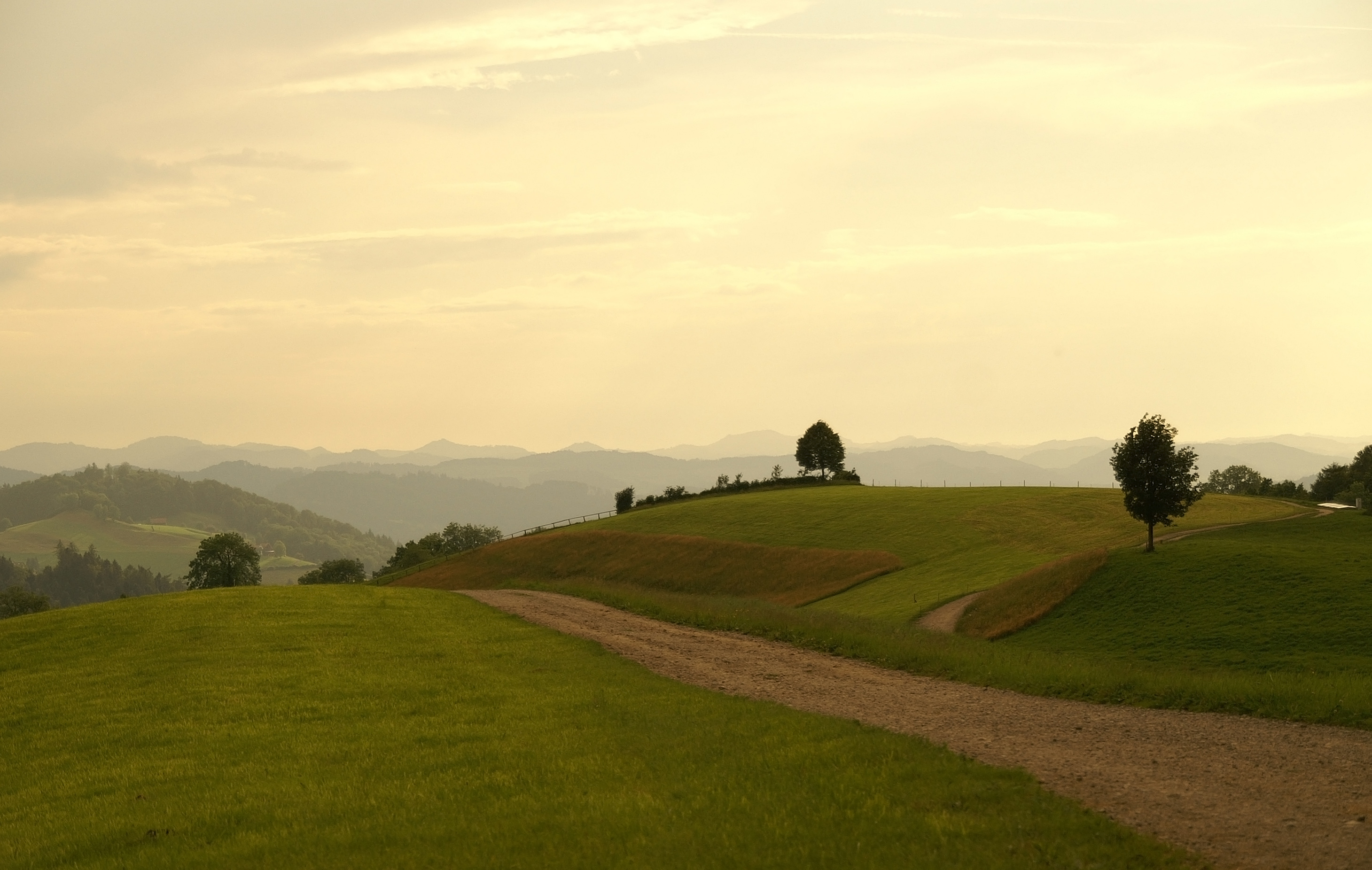 Freudenberg near Sankt Gallen, Switzerland.